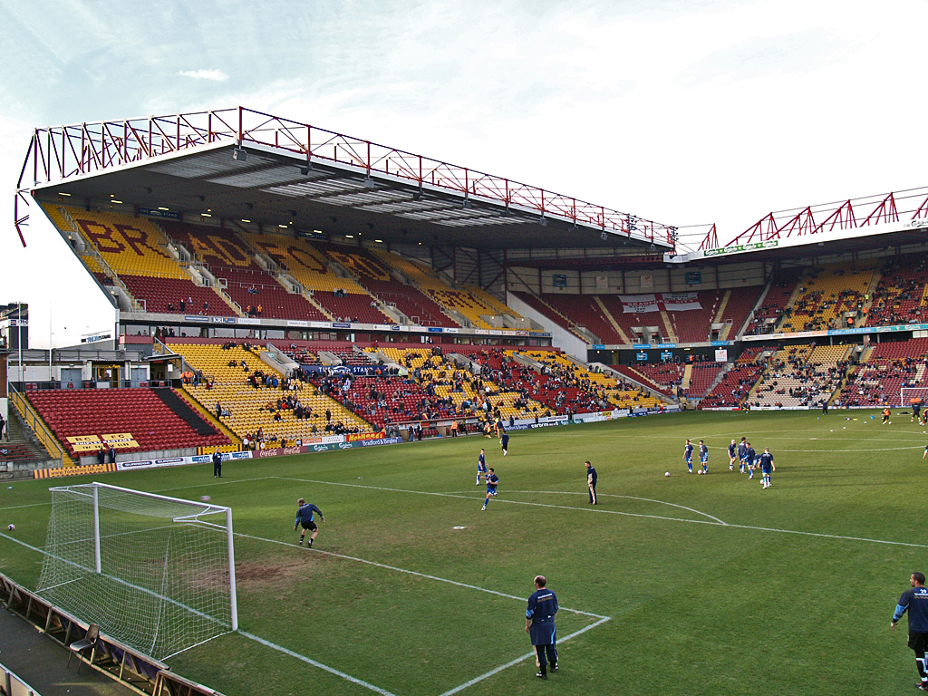 Players warm-up before the League Two fixture between Bradford City and Bury at Valley Parade on Saturday, February 9, 2008 The Sunwin Stand at the Coral Windows Stadium, home of Bradford City FC. Saturday 9th February 2008